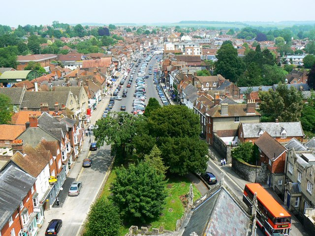 High Street, Marlborough from St Peter's church roof Looking north-east up the Georgian High Street.